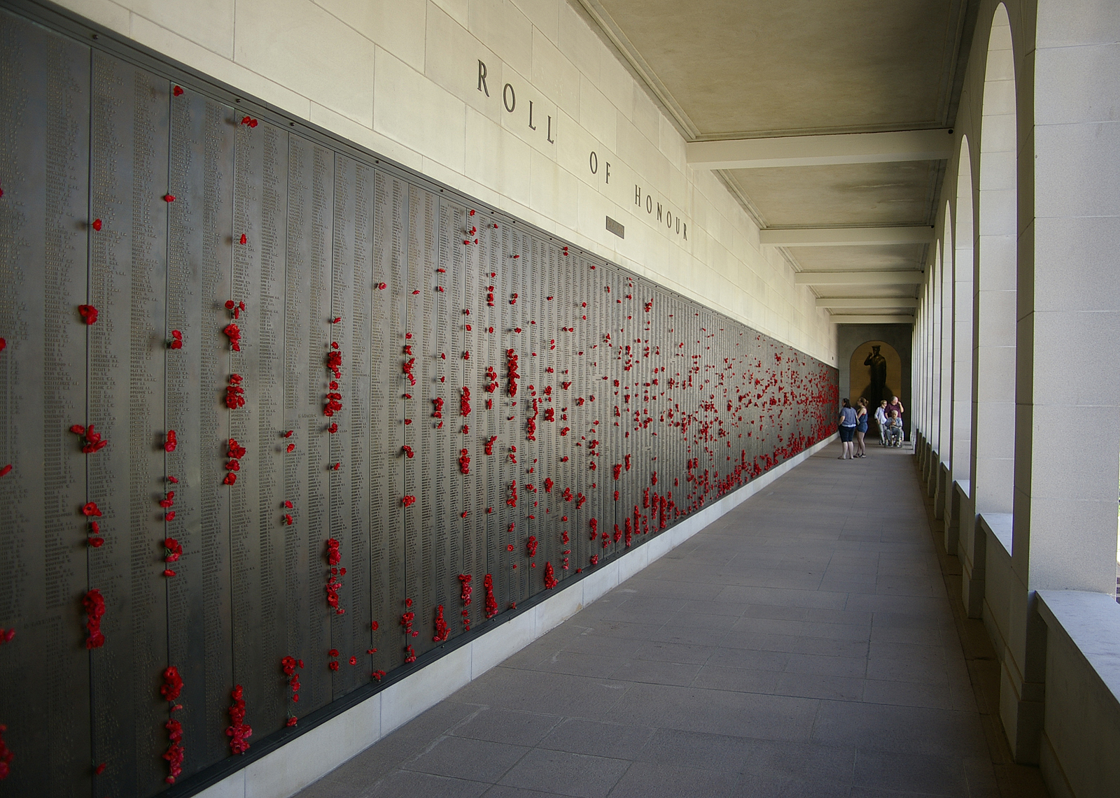 Australian War Memorial World War Two Roll of Honor in Canberra, Australian Capital Territory.